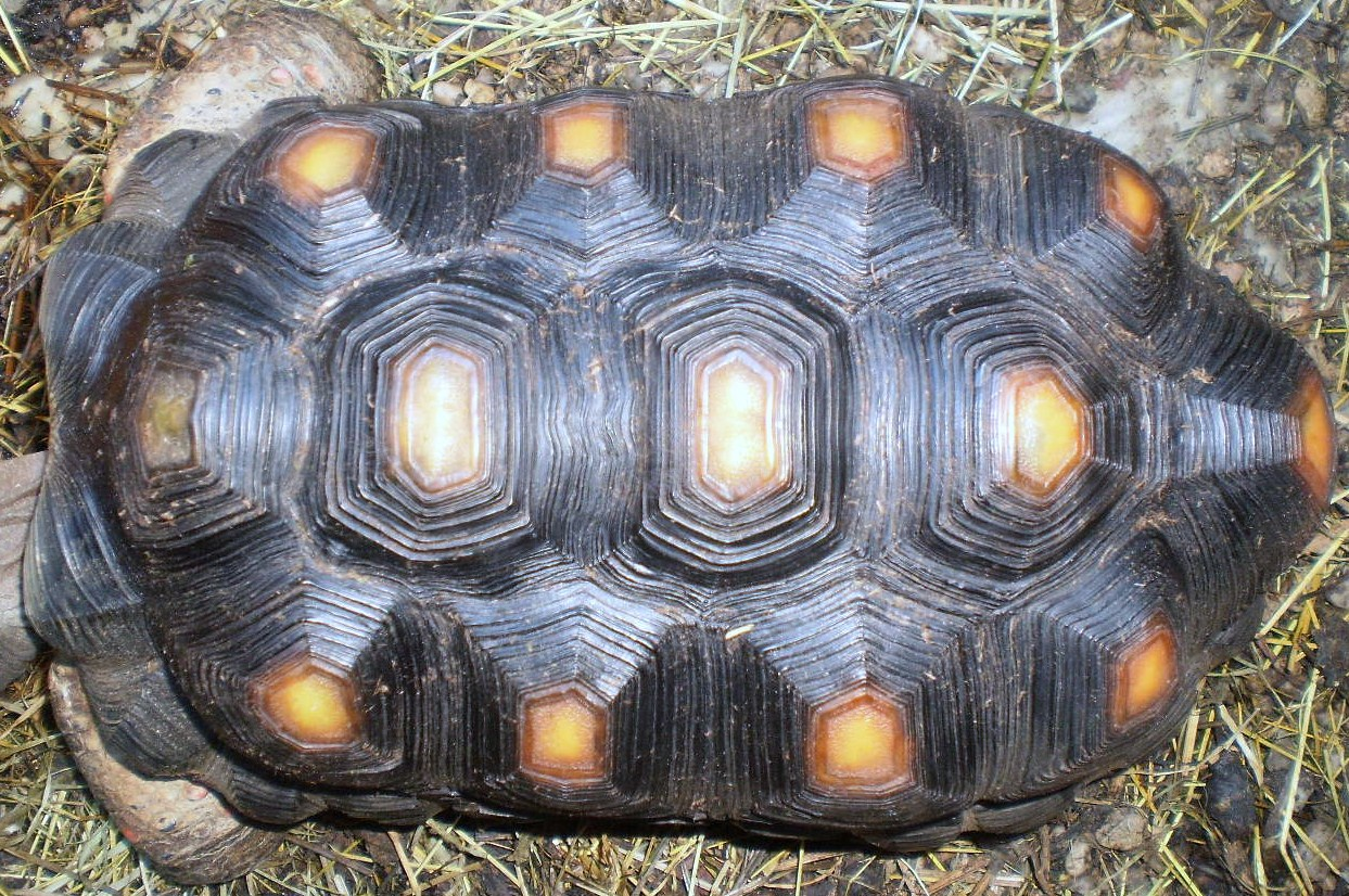 Karapax of red-footed tortoise